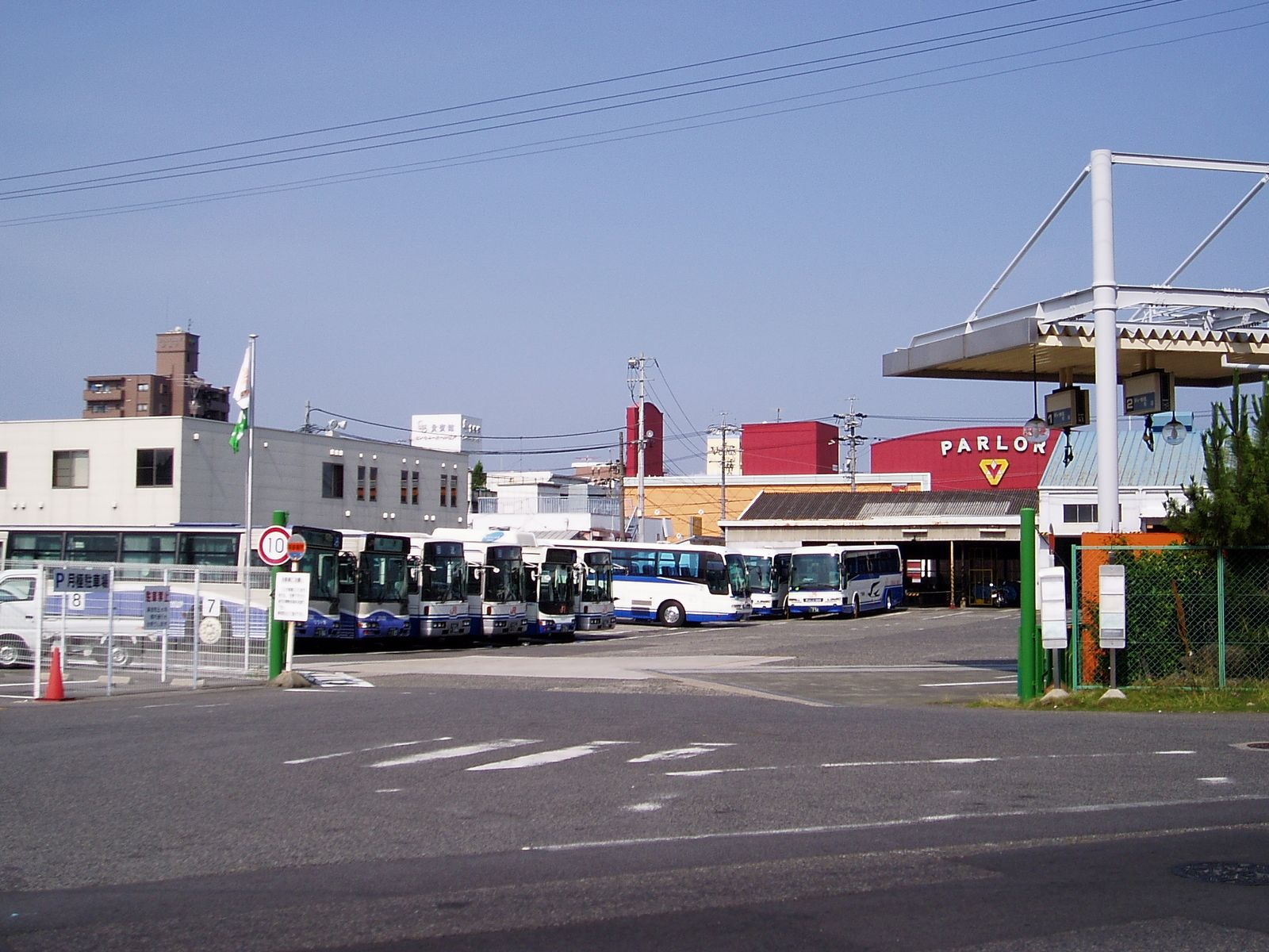 JR Tokai Bus Seto Office